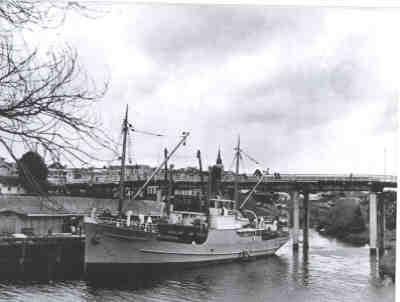 Nimbin 1927 to 1940 sank by German Mine at Dock